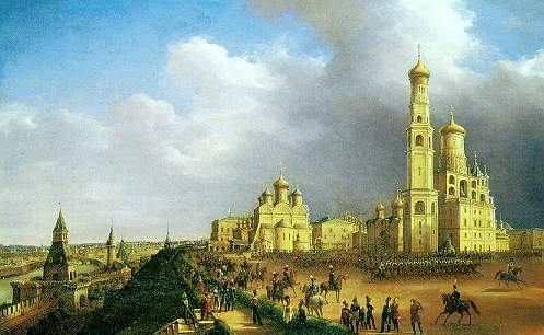 G.G. Chernetsov. TitleThe parade in the Kremlin in 1838. 1841Date1841Current locationRussiaSource/Photographer (Reusing this file)Public domain